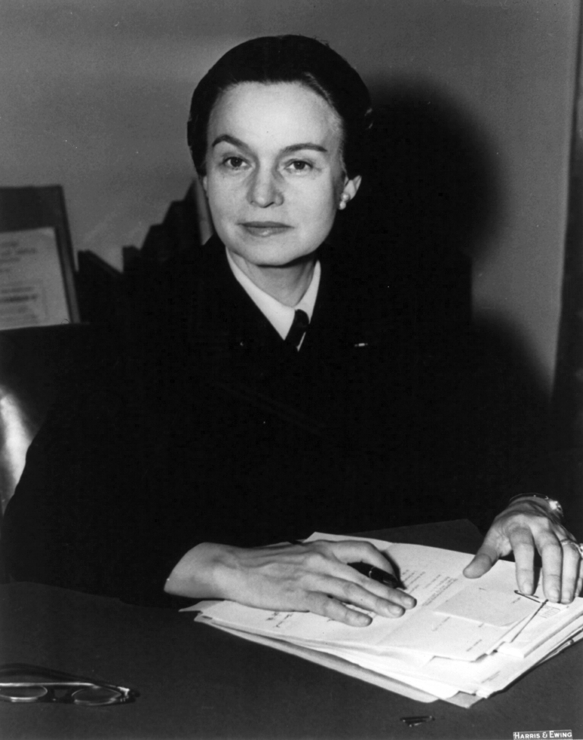 Photograph of Oveta Culp Hobby, first secretary of the United States Department of Health, Education and Welfare, first commanding officer of the Women's Army Corps, and chairman of the board of the Houston Post.